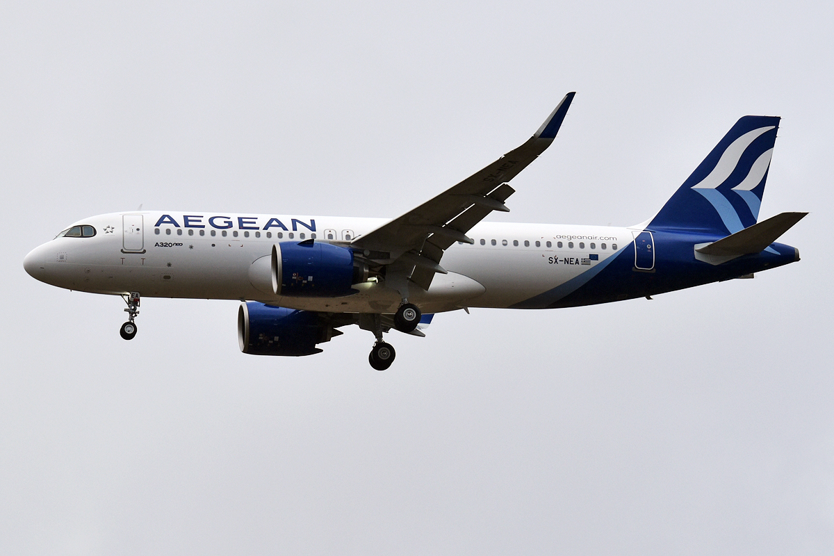 Aegean Airlines, SX-NEA, Airbus A320-271N